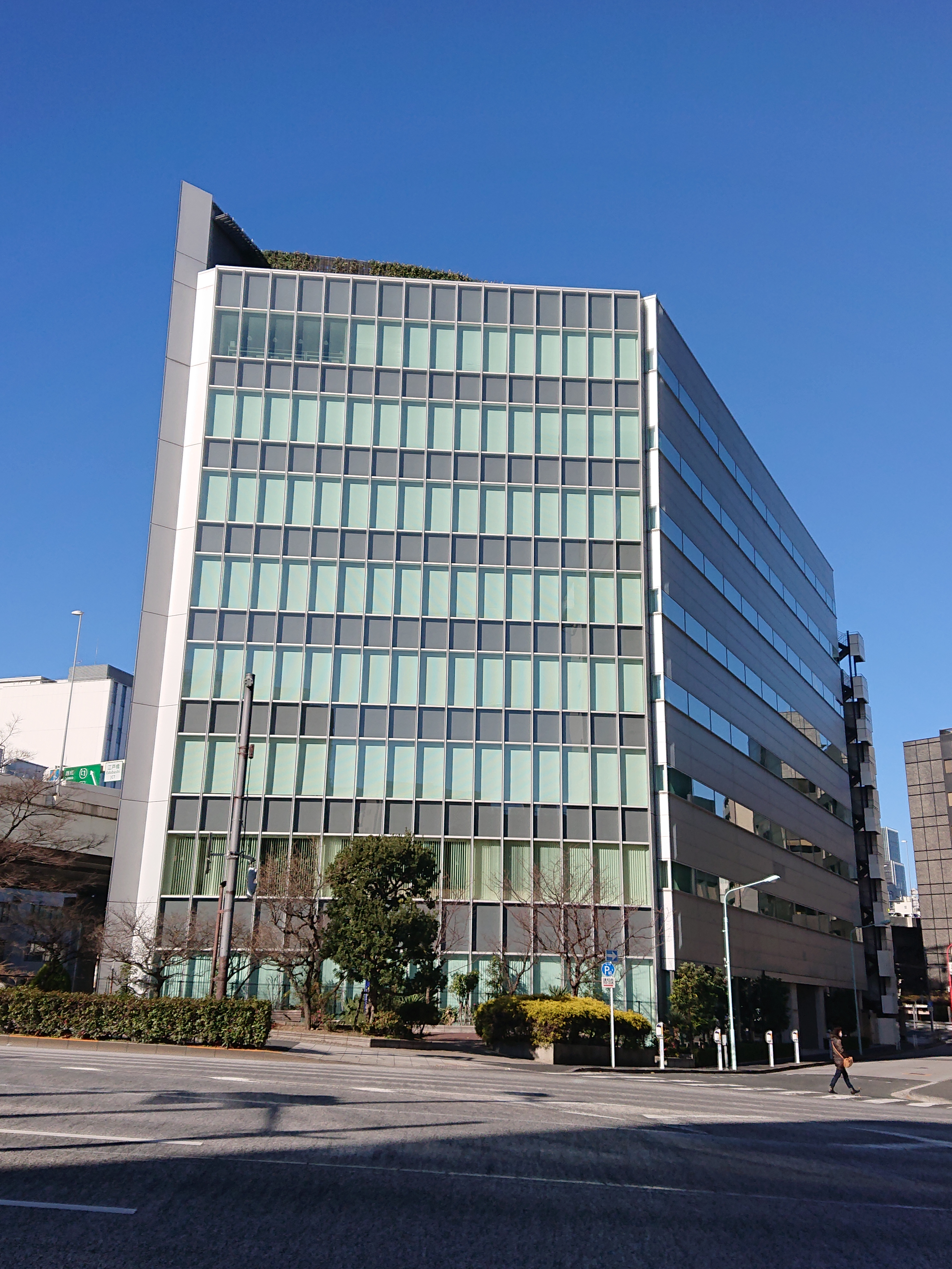 Nittochi Nihonbashi East Building (日土地日本橋イーストビル), located at 7-2 Nihonbashi-Koamicho, Chuo, Tokyo, Japan